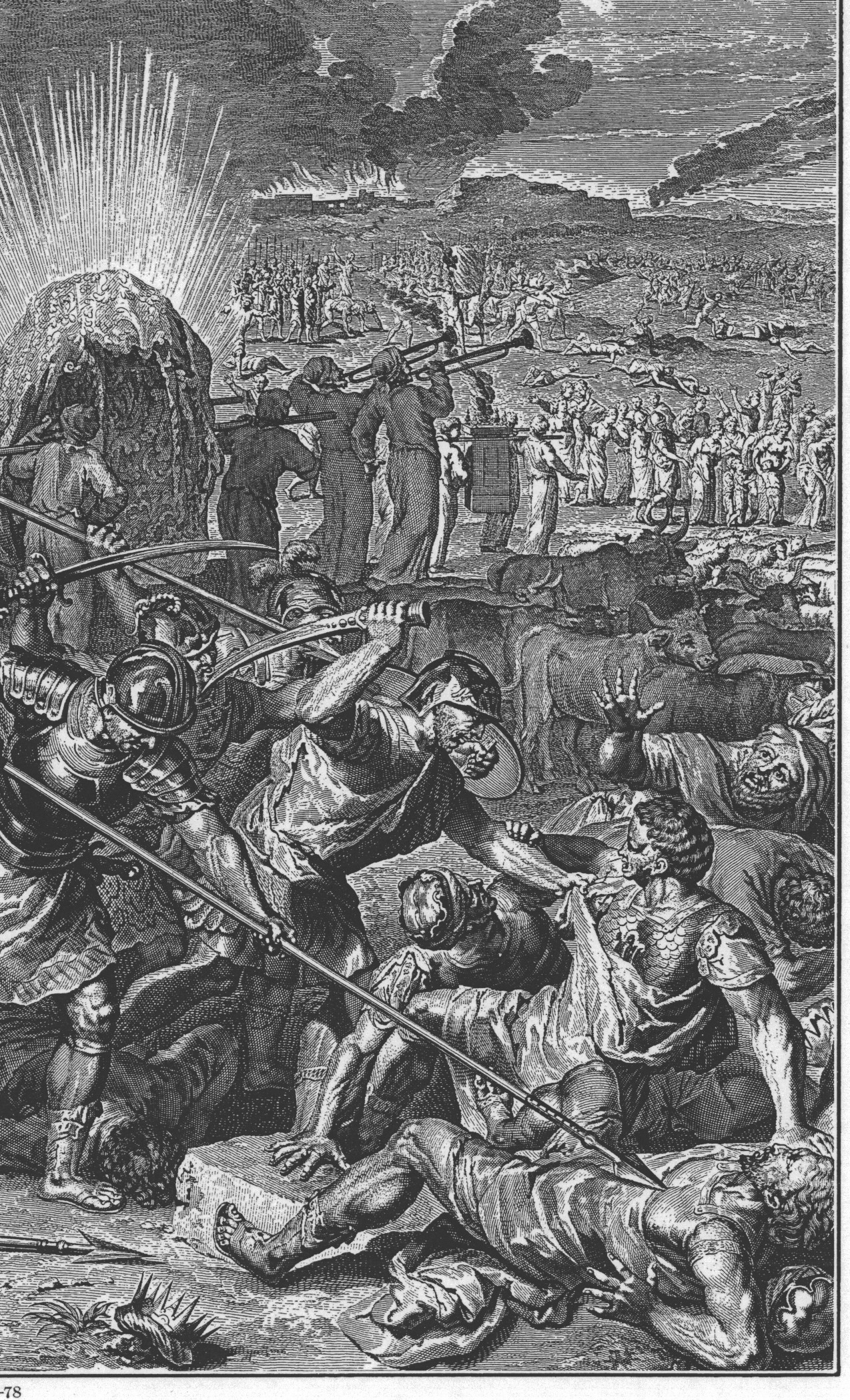 Israel Driven Back into the Desert, as in Numbers 14:33, illustration from The Bible and Its Story Taught by One Thousand Picture Lessons. Edited by Charles F. Horne and Julius A. Bewer. 1908.